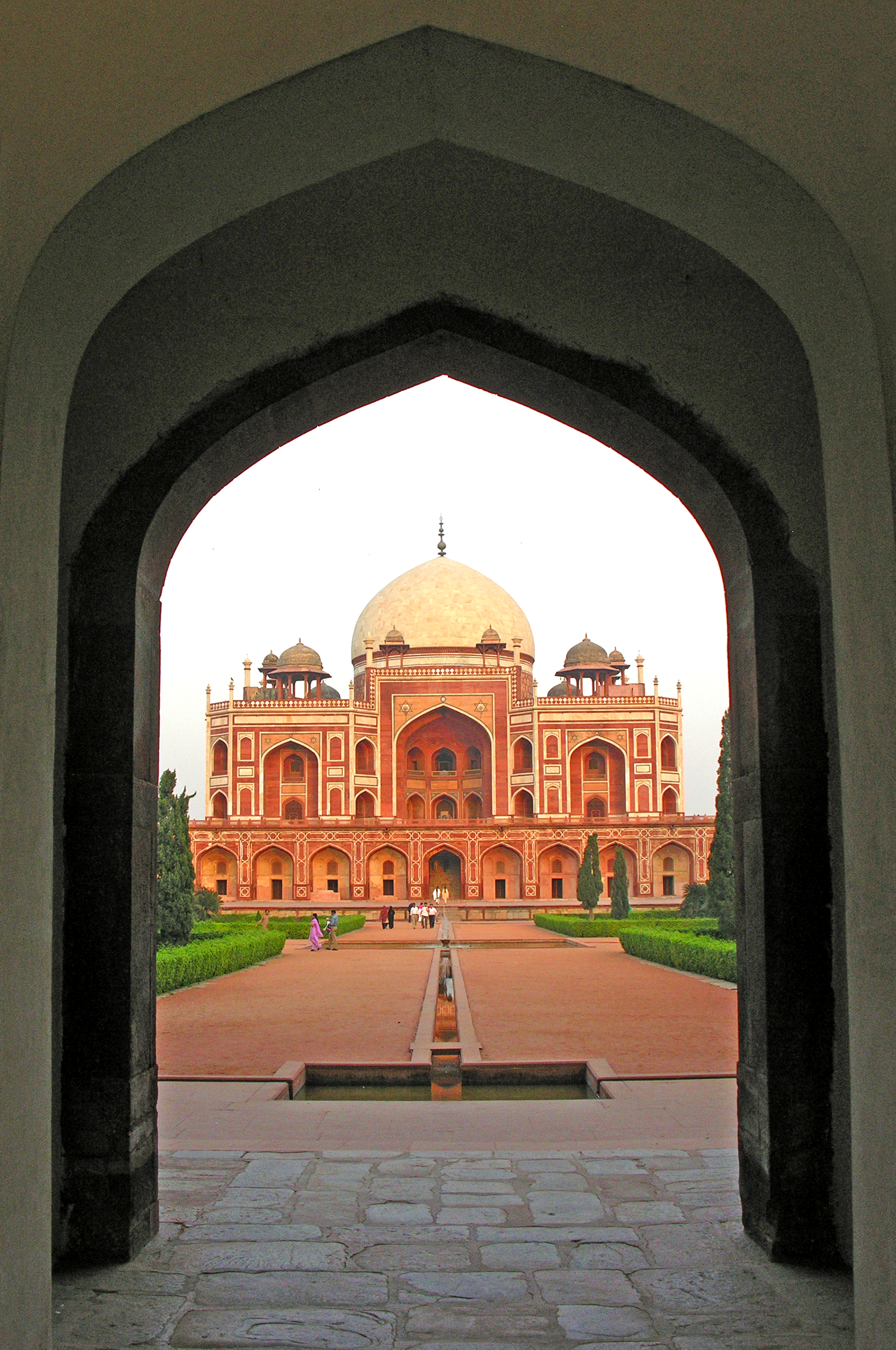 PLEASE, no multi invitations, glitters or self promotion in your comments. My photos are FREE for anyone to use, just give me credit and it would be nice if you let me know. Thanks Humayun’s Tomb, Delhi, India Built in the middle of the 16th century by the widow of the Moghul emperor Humayun, this tomb launched a new architectural era that reflected its Persian influence, culminating in the Taj Mahal and Fatehpur Sikri. The Moghuls brought to India their love of gardens and fountains and left a legacy of harmonious structures, such as this mausoleum, that fuse symmetry with decorative splendor. Resting on an immense two-story platform, the tomb structure of red sandstone and white marble is surrounded by gardens intersected by water channels in the Moghuls' beloved charbagh design: perfectly square gardens divided into four (char) square parts. The marble dome covering the actual tomb is another first: a dome within a dome (the interior dome is set inside the soaring dome seen from outside), a style later used in the Taj Mahal. As you enter or leave the tomb area, stand a moment before the beveled gateway to enjoy the view of the monument framed in the arch.